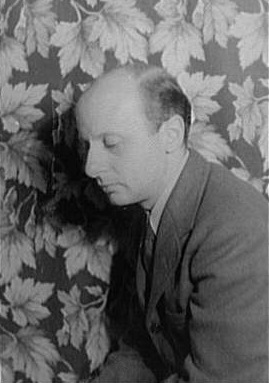 Eugène Berman (Russian: Евгений Густавович Берман; Evgeny Gustavovich Berman November 4, 1899, Moscow - December 14, 1972) Portrait of Eugene Berman